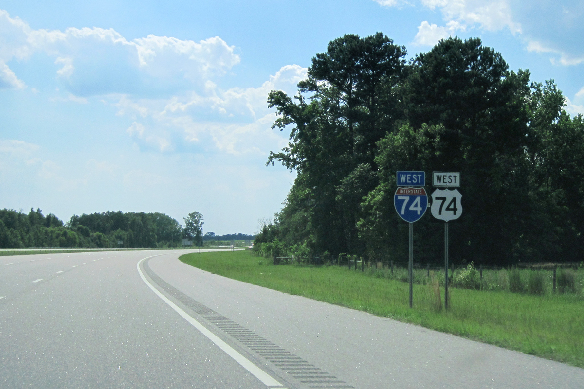 Int74wUS74wSigns-RoadCurveOutsideLumbertonNC